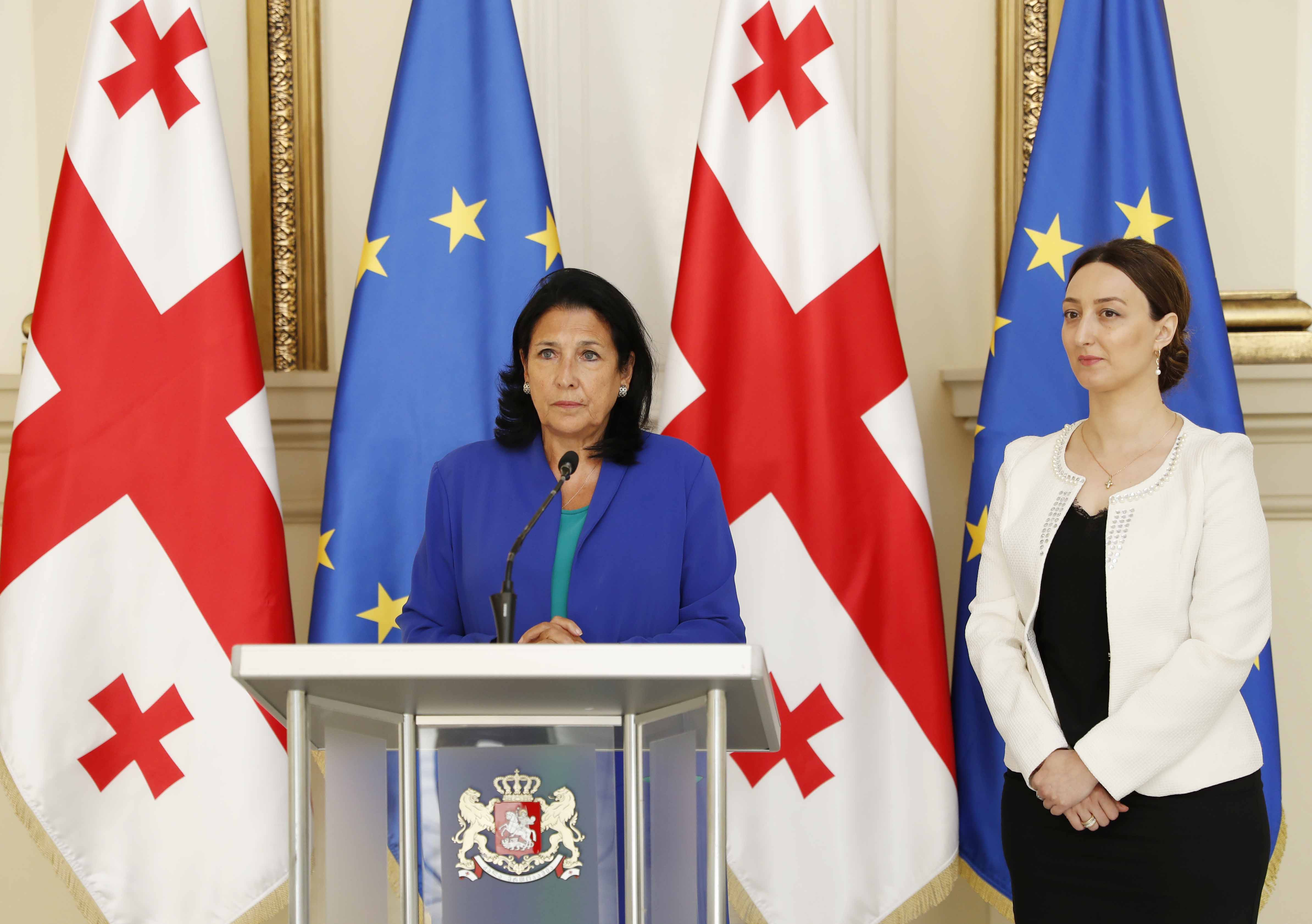 Georgian President Salome Zourabichvili appointing Tamar Ghvamichava as Non-Judge Member of the High Council of Justice of Georgia